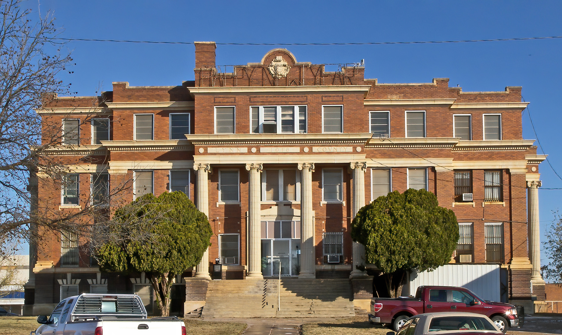 The Lynn County, Texas courthouse located in Tahoka, Texas, United States. It was listed on the National Register of Historic Places on July 8, 1982.